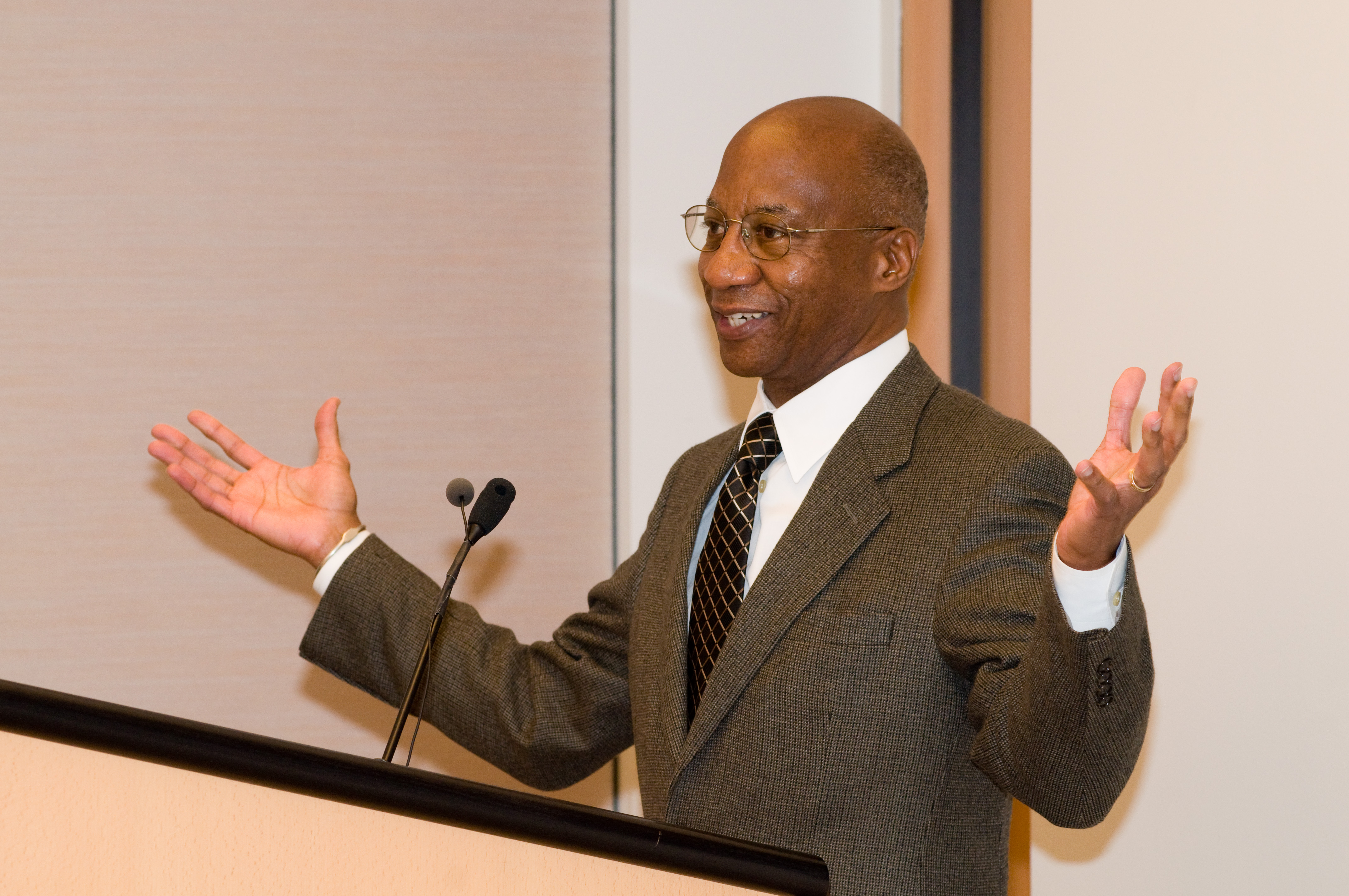 Closing remarks from Donald R. Hopkins